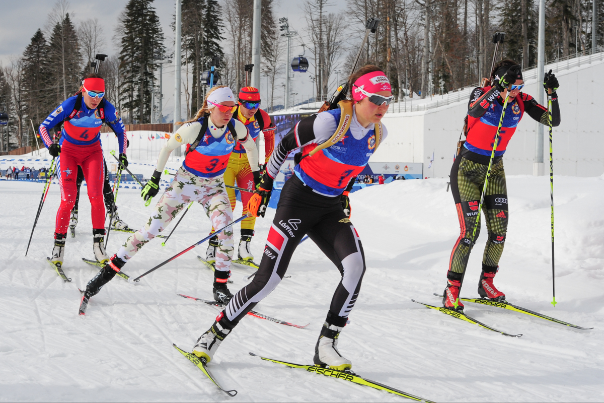 Биатлон, смешанная эстафета. III Зимние Всемирные Военные Игры. Лыжно-биатлонный комплекс «Лаура», Сочи, Россия. 25 февраля 2017. Фото Alexander Fedorov/CISM2017Biathlon, Mixed Relay. 3rd CISM World Winter Games. Laura Cross-Country Ski&Biathlon Centre, Sochi, Russian Federation. February 25, 2017. Photo by Alexander Fedorov/CISM2017